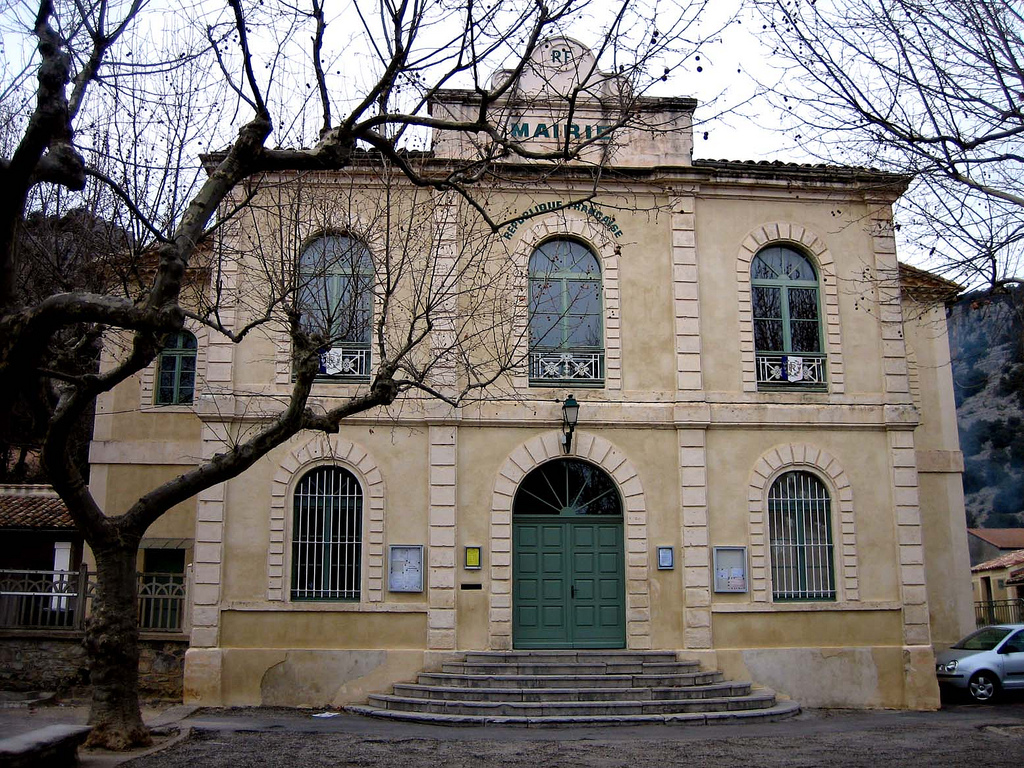 Mairie, Corconne, Gard, France